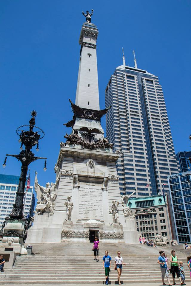 The Soldiers' and Sailors' Monument Indianapolis, IN